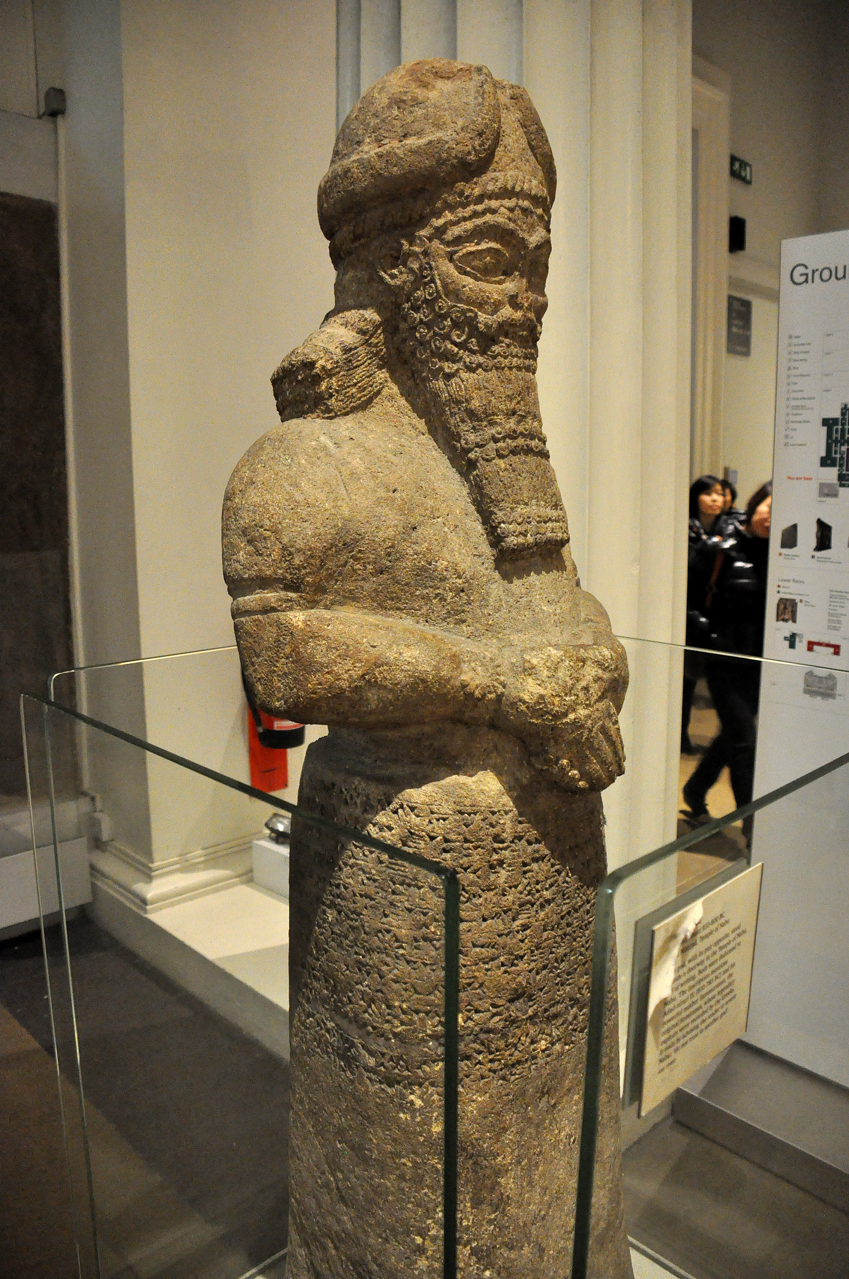 This attendant god was found at the Temple of god Nabu at Nimrud, Mesopotamia, Iraq. The cuneiform inscription mention the name of the Assyrian king Adad-nirari III and his mother, Sammuramat. Circa 810-800 BCE. The British Museum, London.